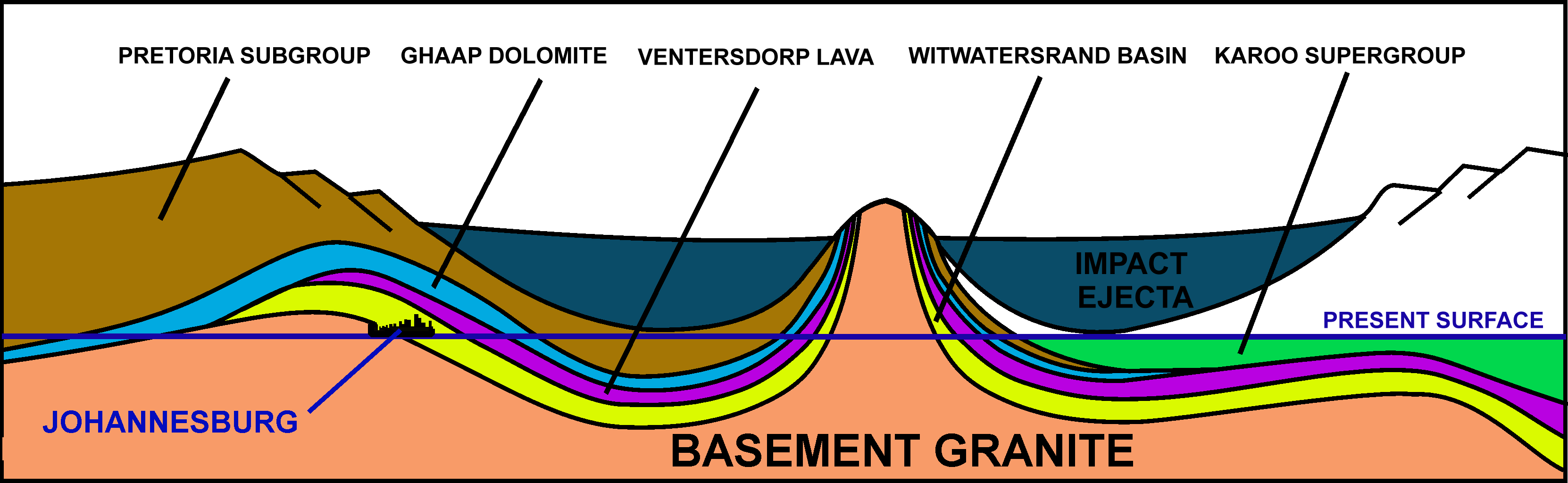 A diagrammatic NE-SW cross section through the Vredefort crater showing how the underlying strata were distorted by the meteor impact.